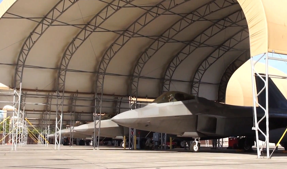 199th Fighter Squadron - F-22s in shelters